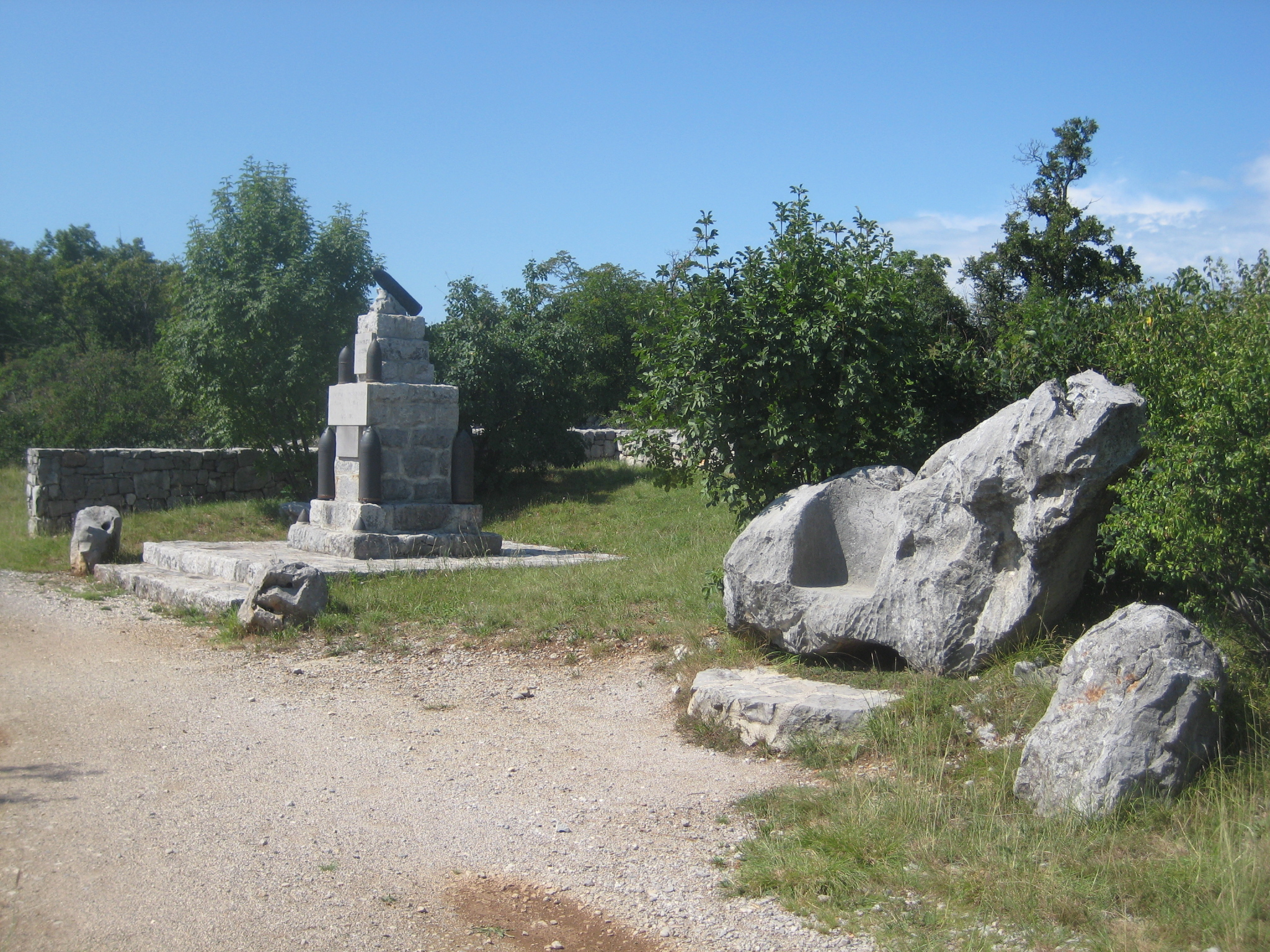 In the front, the Boroevic Throne, named after Svetozar Boroević. In the back, a fingerpost and a monument built by the 43th Infantry Regiment in honour of Archduke Joseph August of Austria.